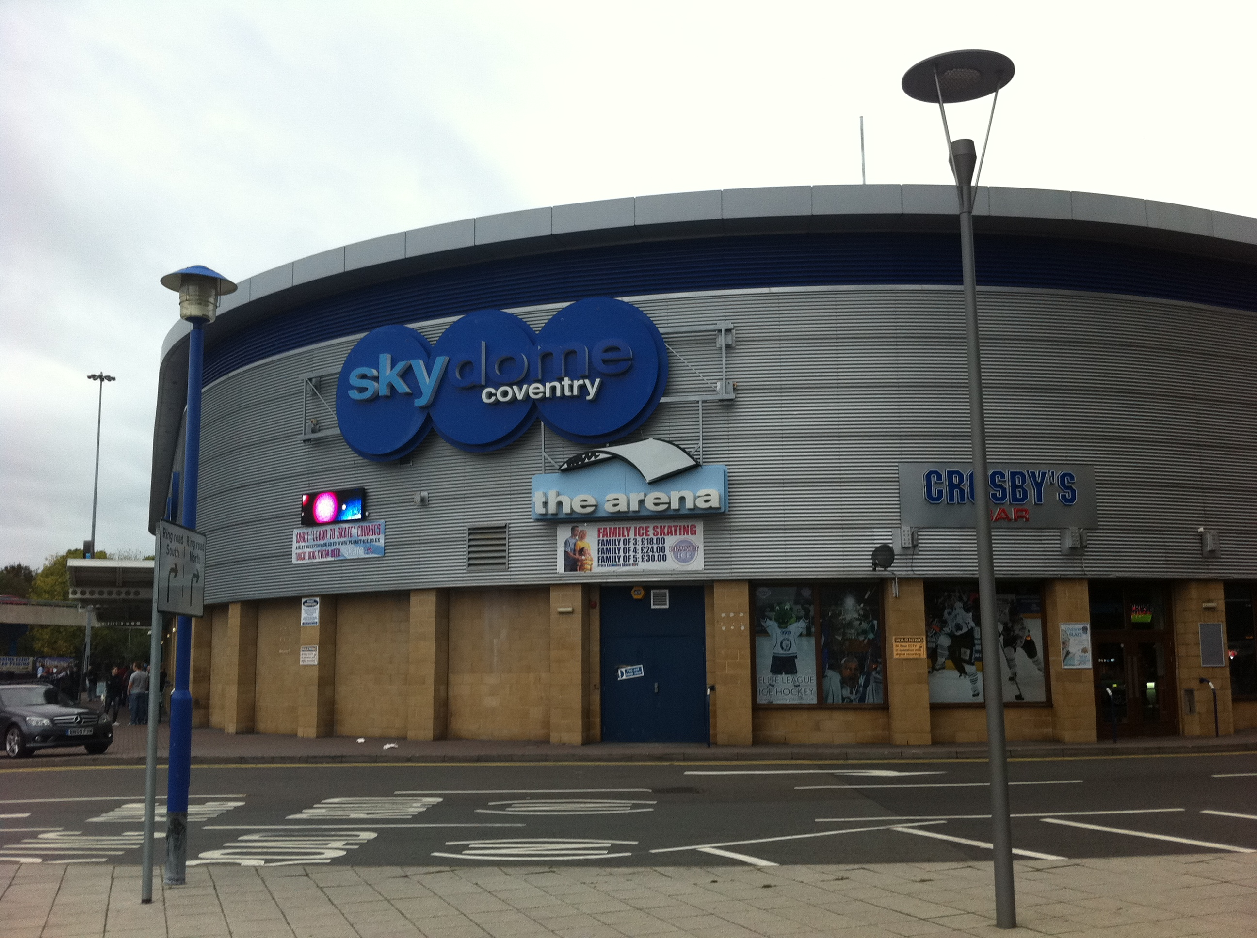 skydome arena in coventry